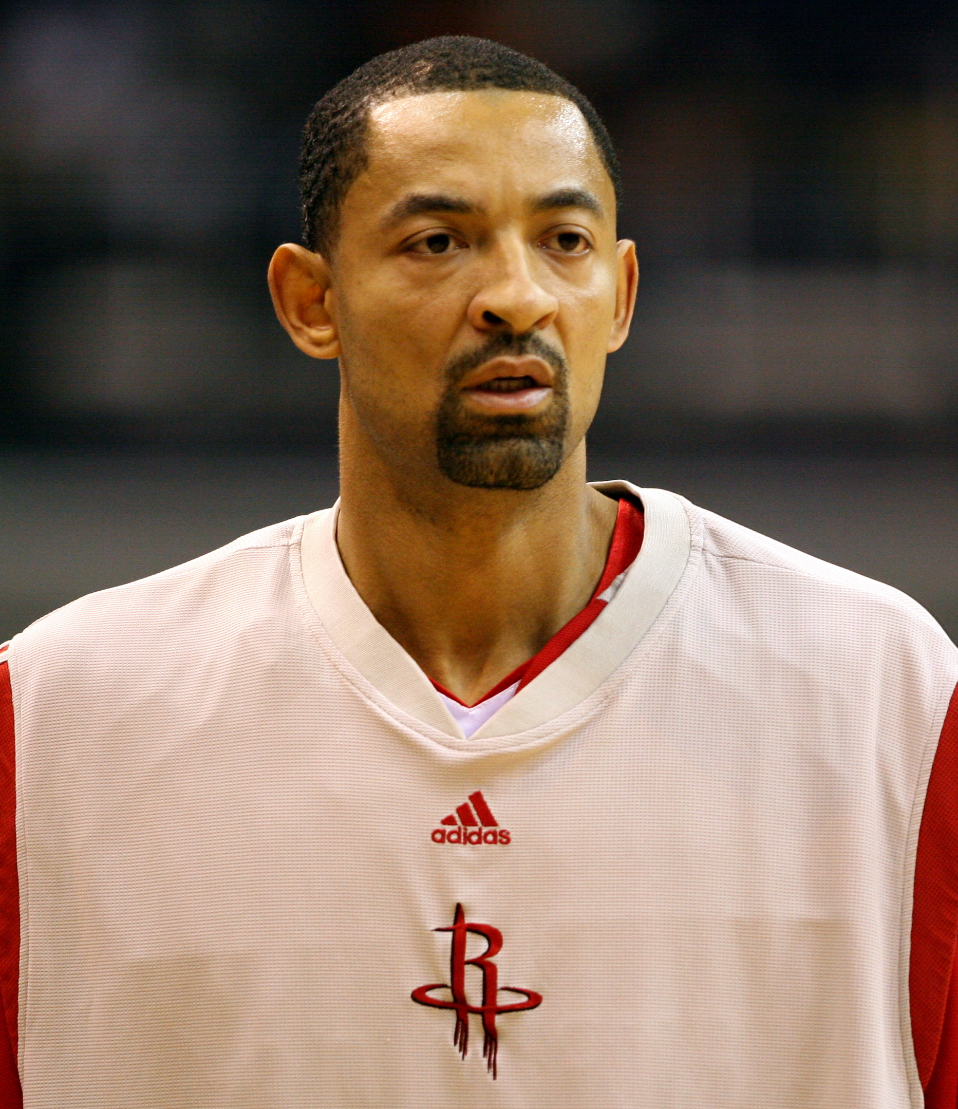 Juwan Howard playing with the Houston Rockets